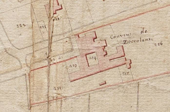 Map of the monastry of Zoccolanti